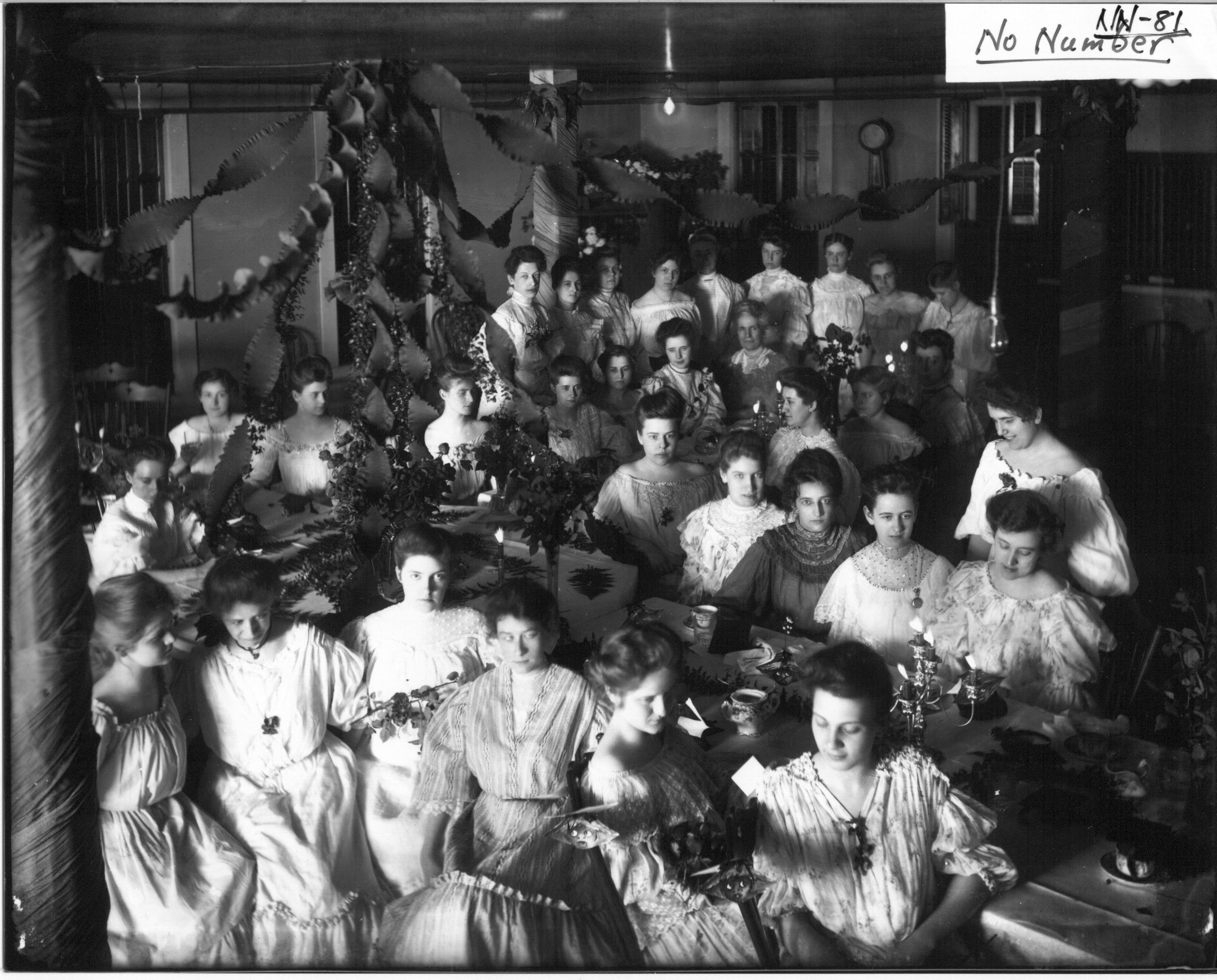 Persistent URL: Subject (TGM): Women's education; Dinner parties; Location: Oxford, Ohio Elizabeth Hamilton is in the back row, left